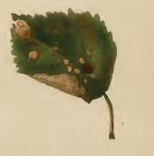 Stainton’s Natural History of the Tineina (1855–1873): Parornix loganella birch leaf with part of its edge turned down